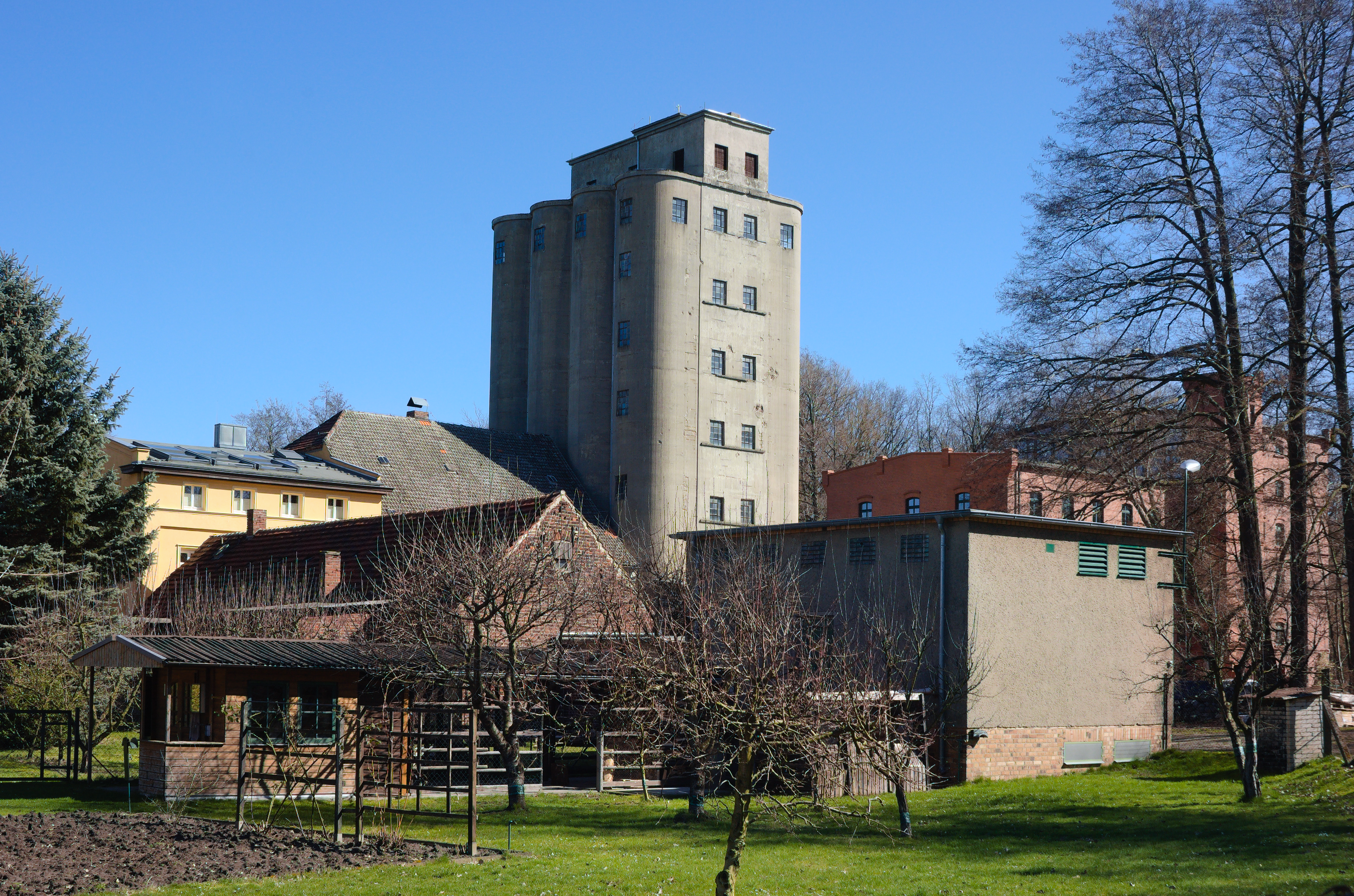 Old grain mill (red brick building) and silo of Große Mühle Madlow, postal address Große Mühle 1. This view is from Große Mühle.